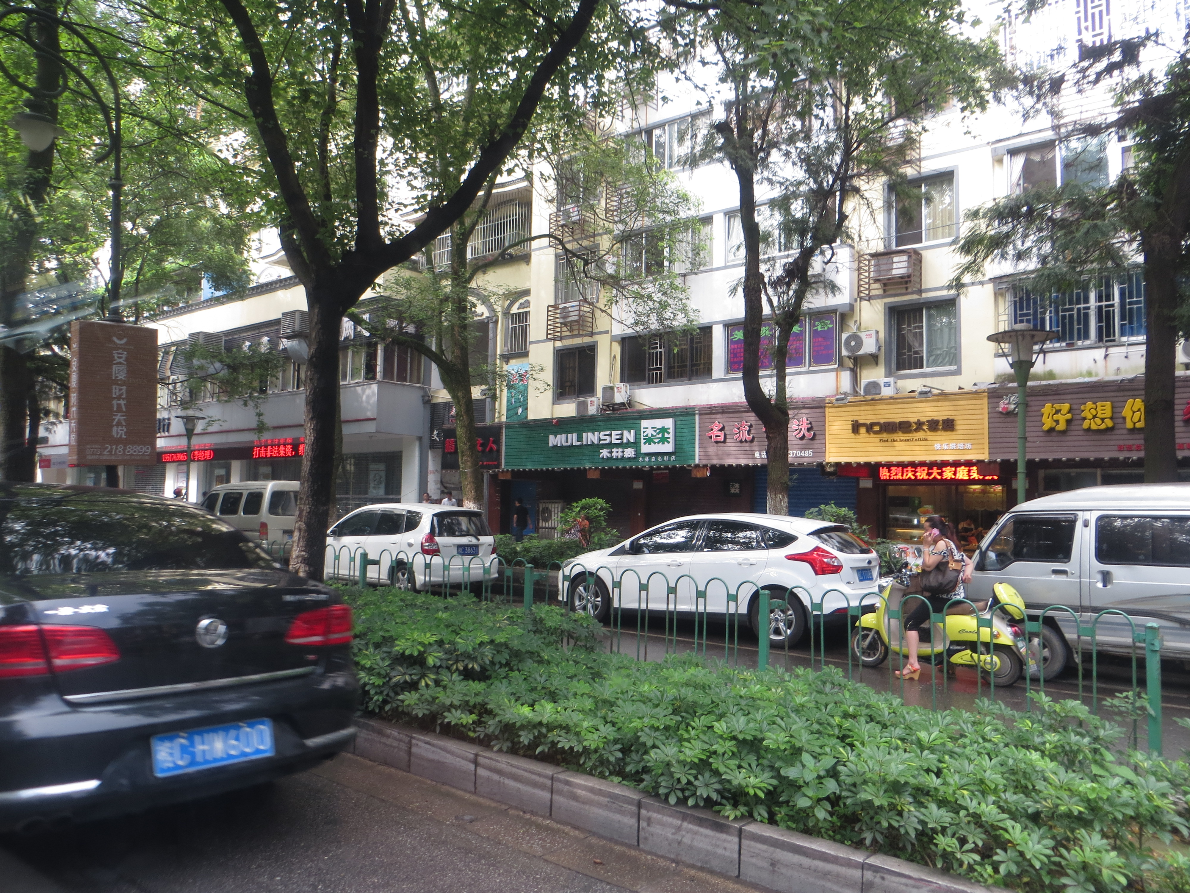 Roadside view in Guilin, China.